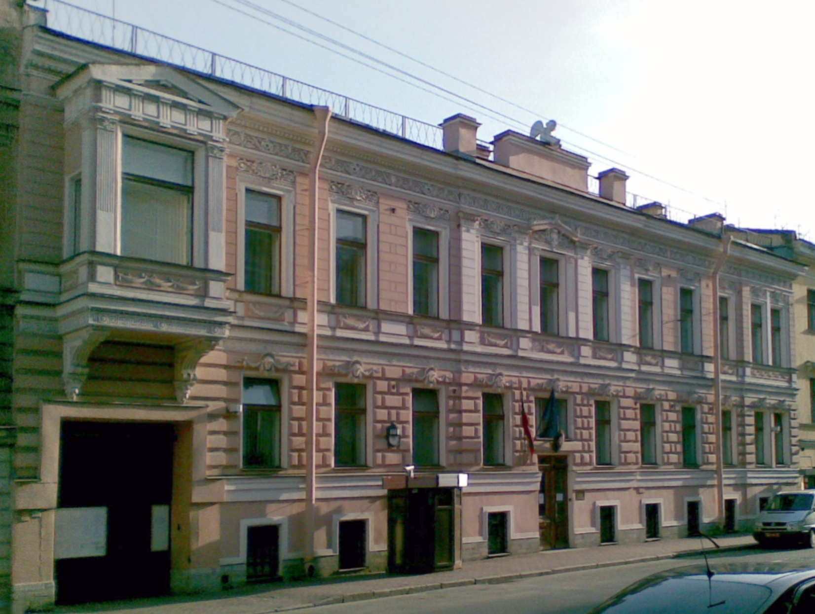 Consulate-General of Lithuania in Saint Petersburg (191123, Ryleeva Street, b. 37)